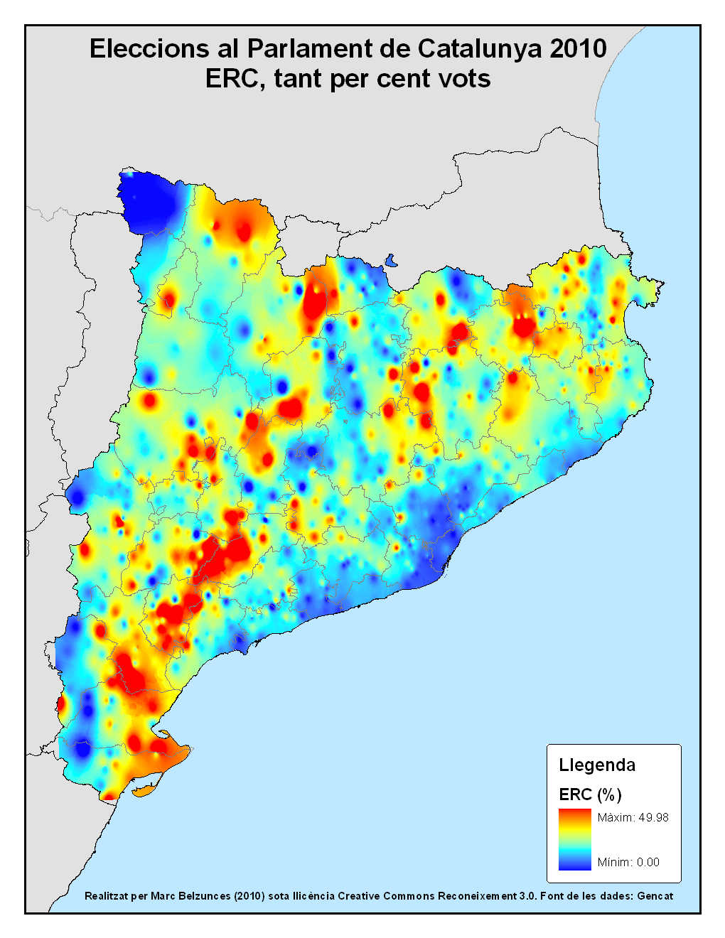 Distribution of ERC vote in elections to the Parliament of Catalonia 2010.